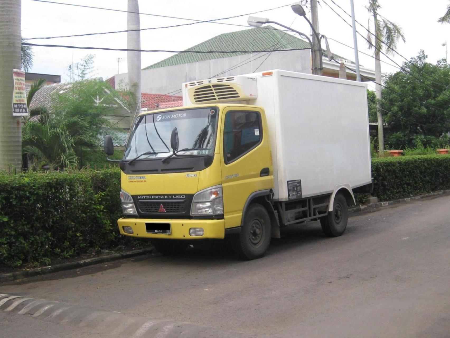 Mitsubishi Fuso Canter / Colt Diesel (FE71) Box Truck, photographed in Jakarta, Indonesia.